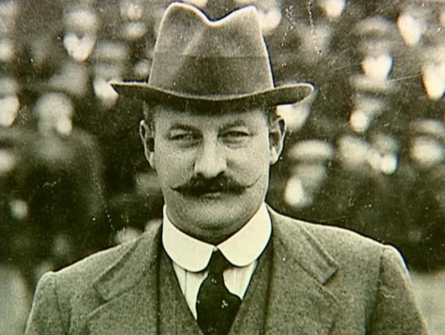 William Isiah "Billy" Bassett, West Bromwich Albion F.C. football (soccer) chairman 1908-37. He had also played for the club in his younger days.